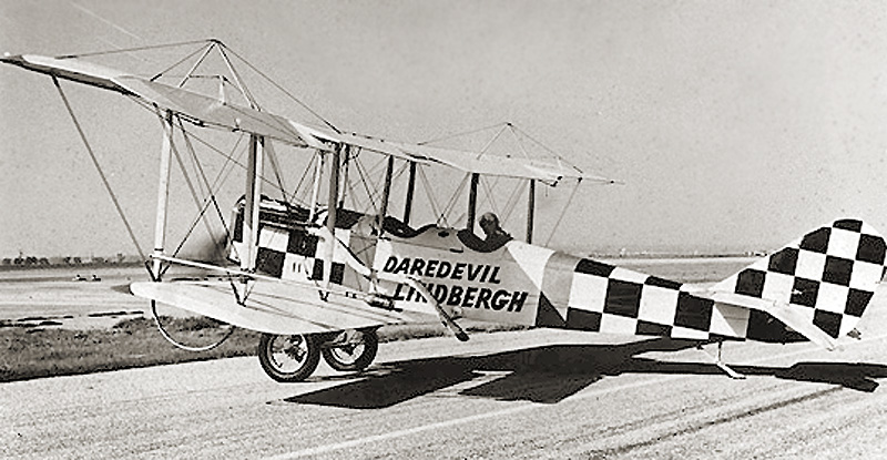 Standard J-1 used by "Daredevil Lindbergh" often misidentified as a Curtis JN-4 "Jenny"